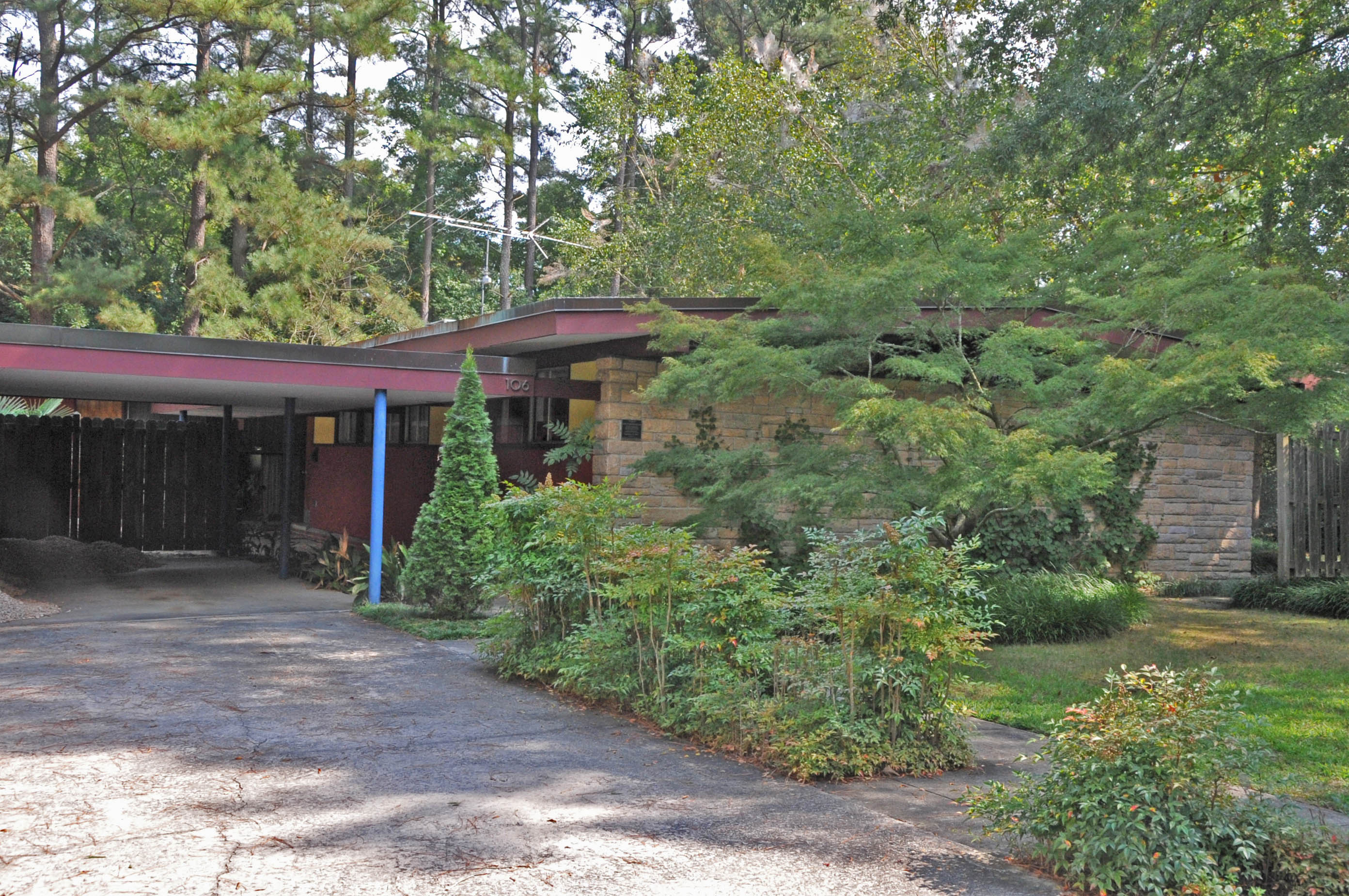 ERECTED 1955; MODERN MOVEMENT